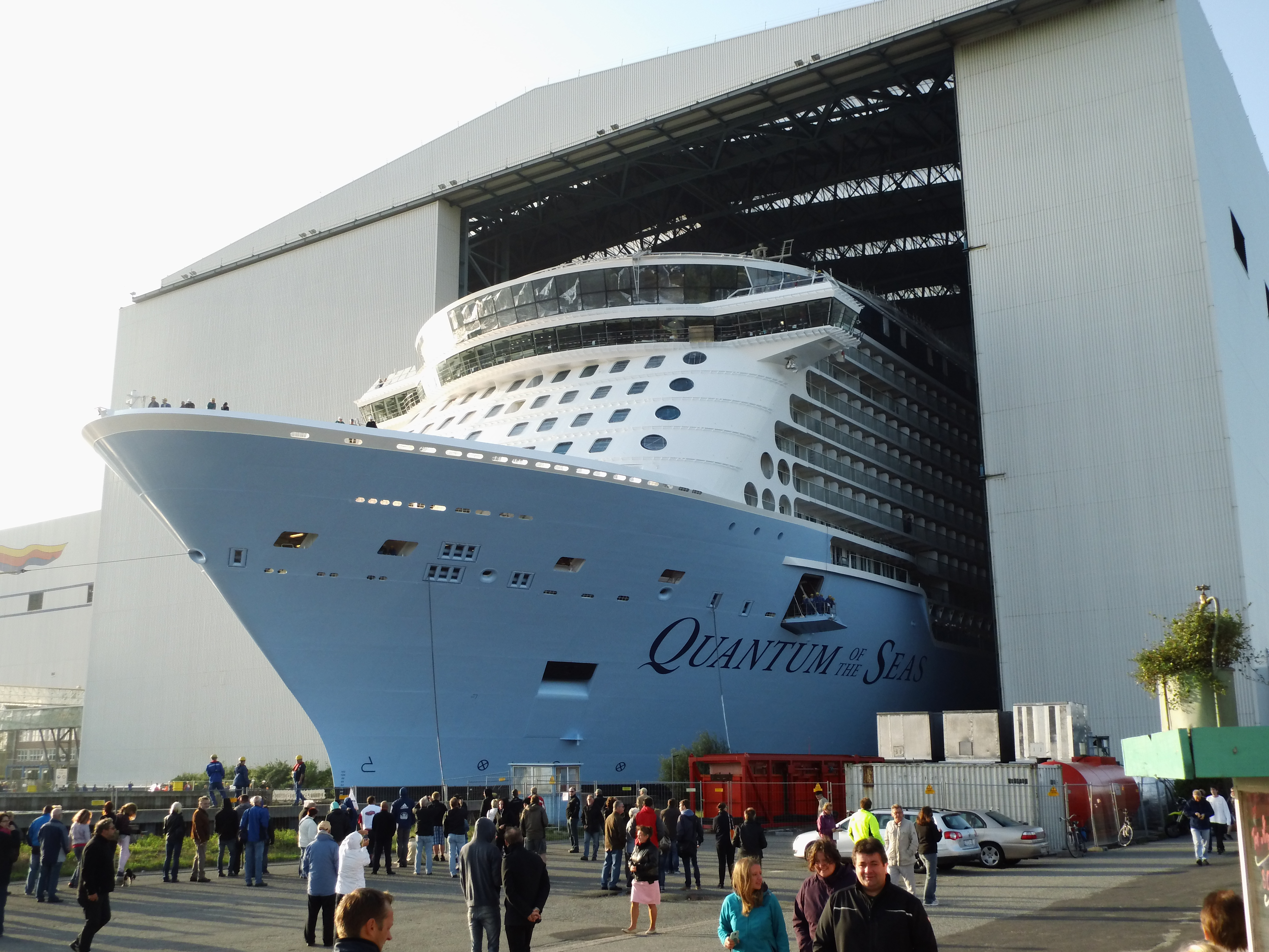 Cruise ship "Quantum of the Seas" is floating out at shipyard "Meyer Werft", Papenburg, Germany